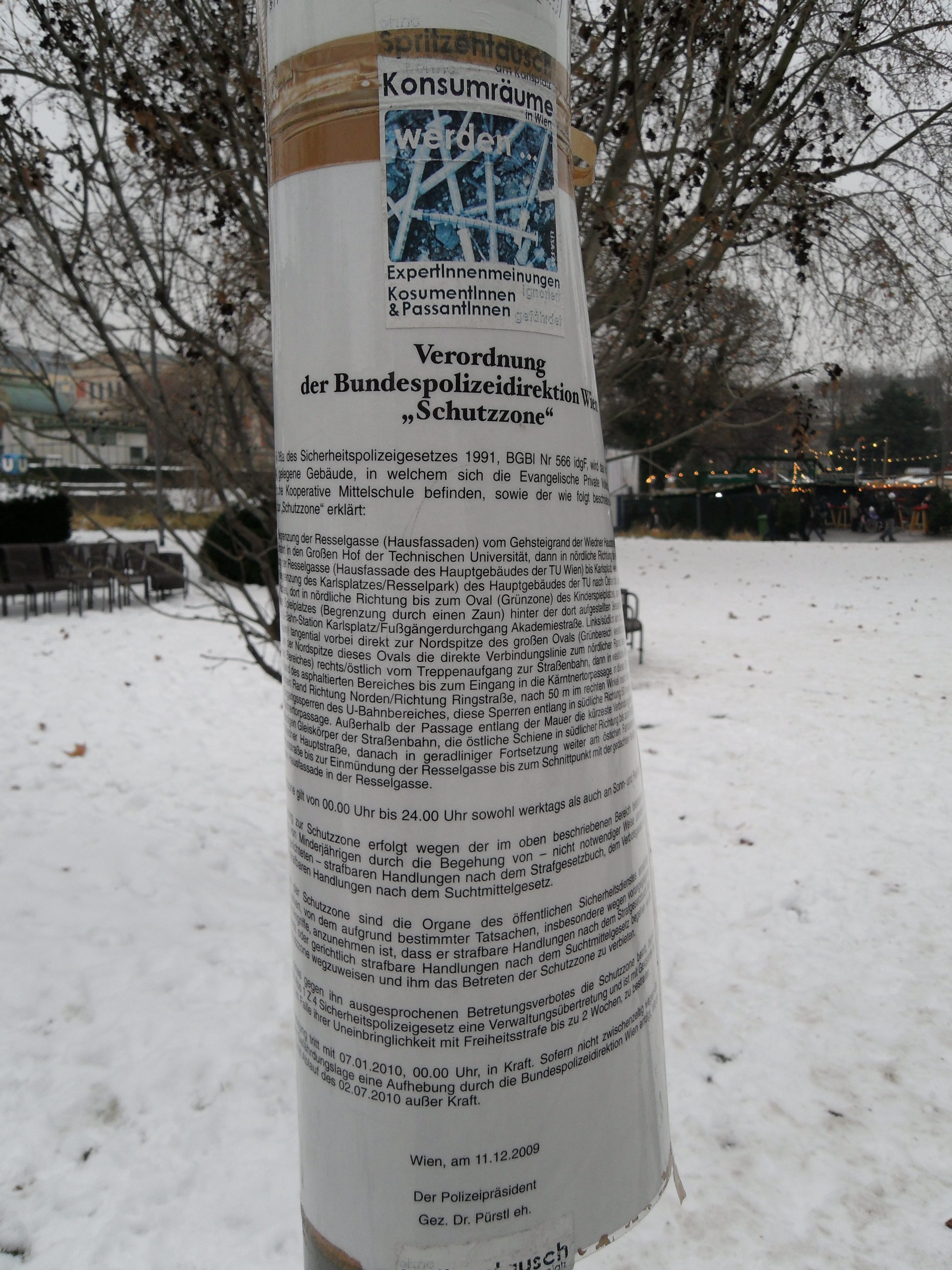 Order of the Bundespolizeidirektion Wien (Federal Police Directorate Vienna) to declare the Karlsplatz in Vienna as a Schutzzone (protection zone), where consuming and/or dealing with drugs is absolutely prohibited. Police forces have special rights in this area.